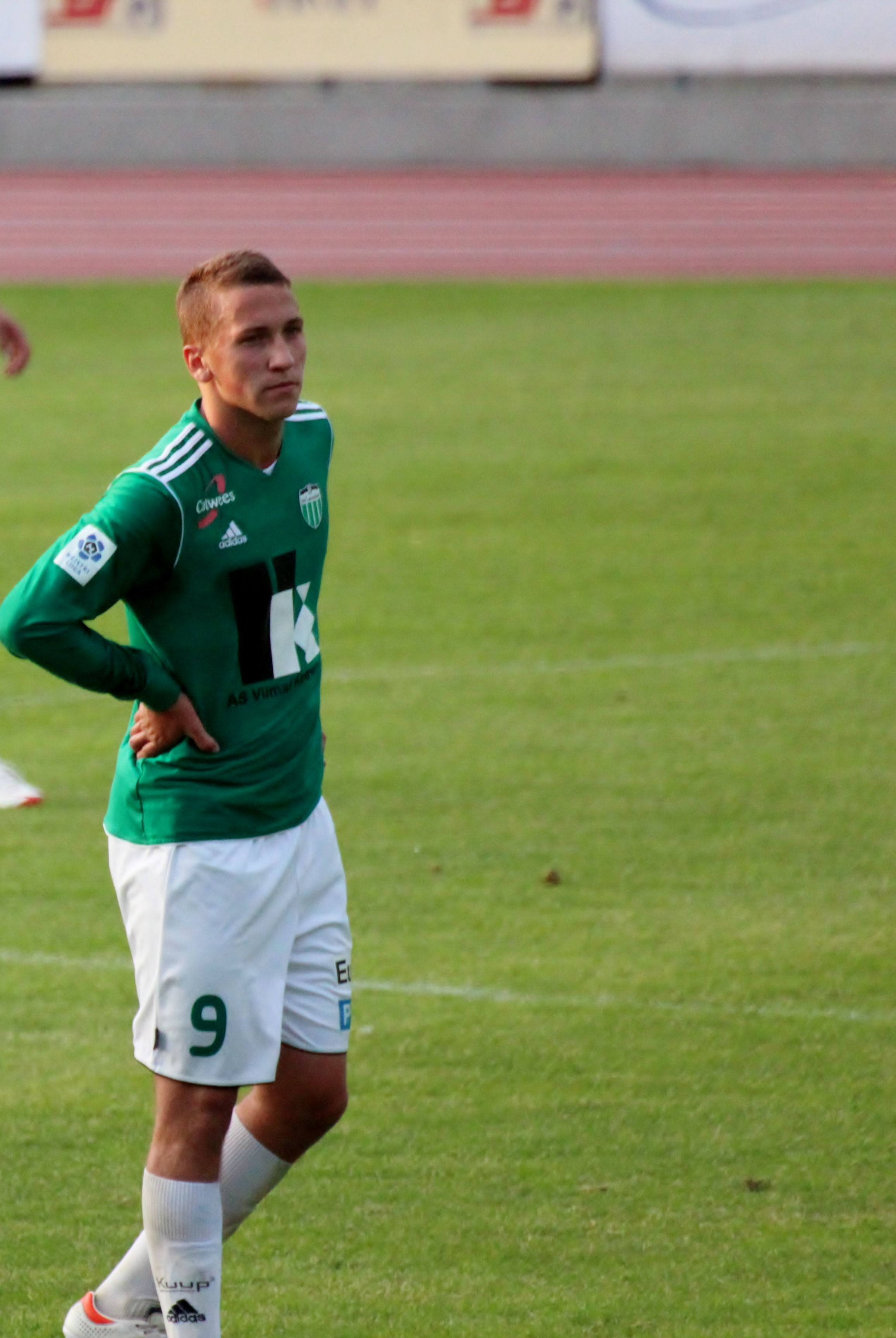 Estonian football player Artur Rättel playing for FC Levadia